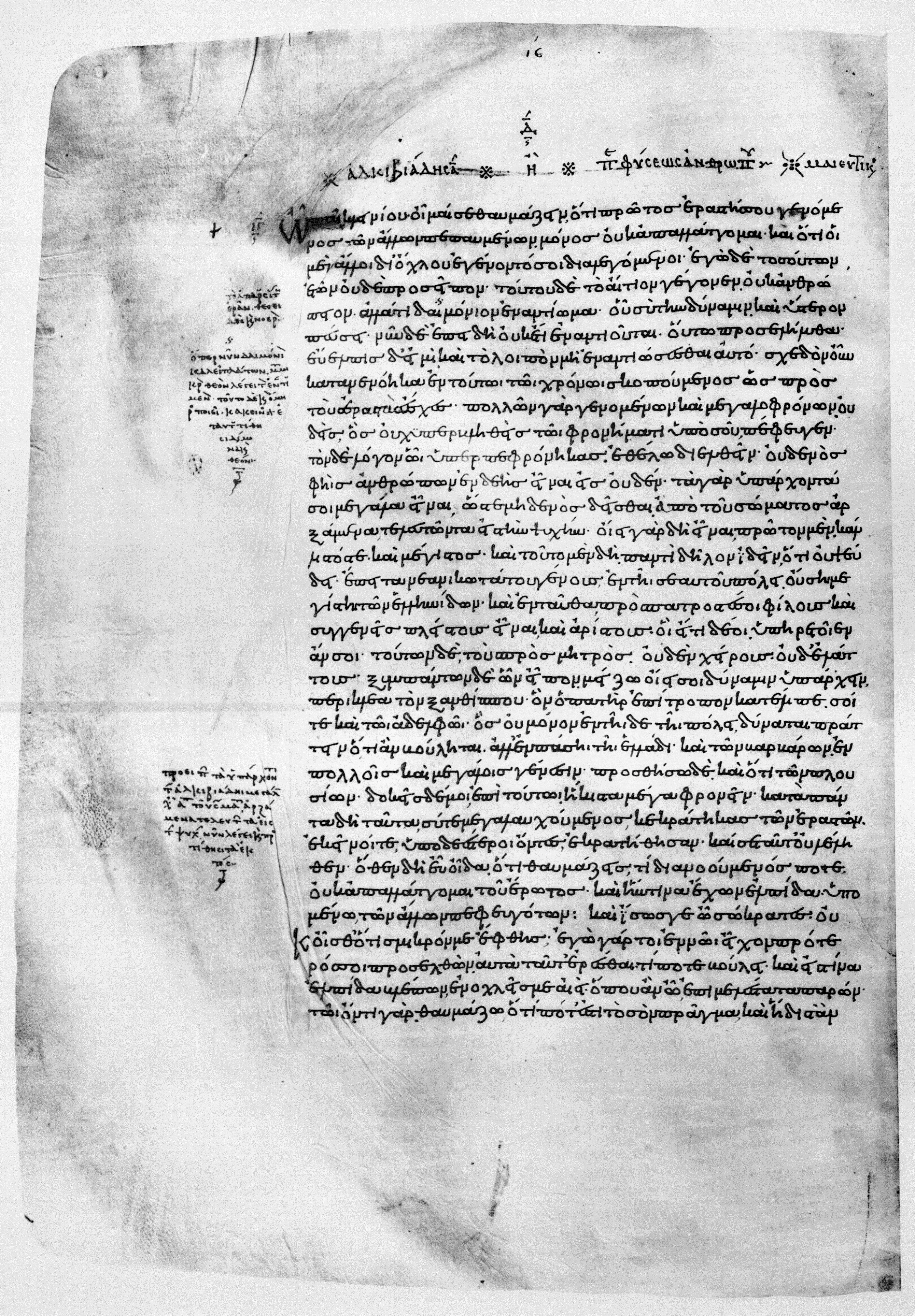 Page of the Codex Oxoniensis Clarkianus 39 (Clarke Plato). Dialogue Alkibiades A.